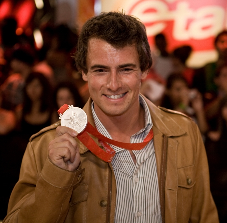 Canadian Olympian Adam Van Koeverden at the eTalk Festival Party, during the Toronto International Film Festival.